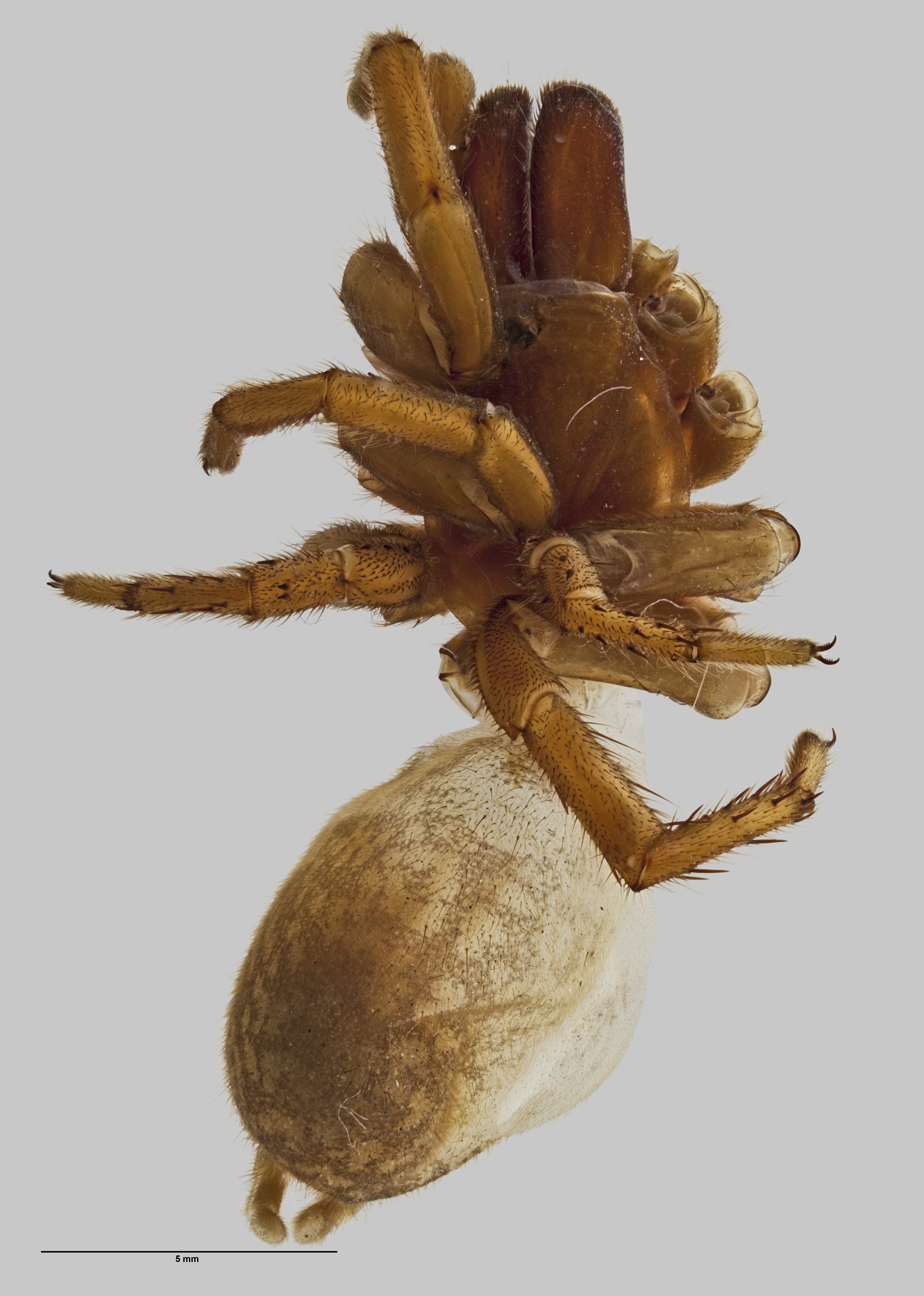 Body of female holotype specimen Stanwellia houhora AMNZ5045 held at the Auckland War Memorial Museum.